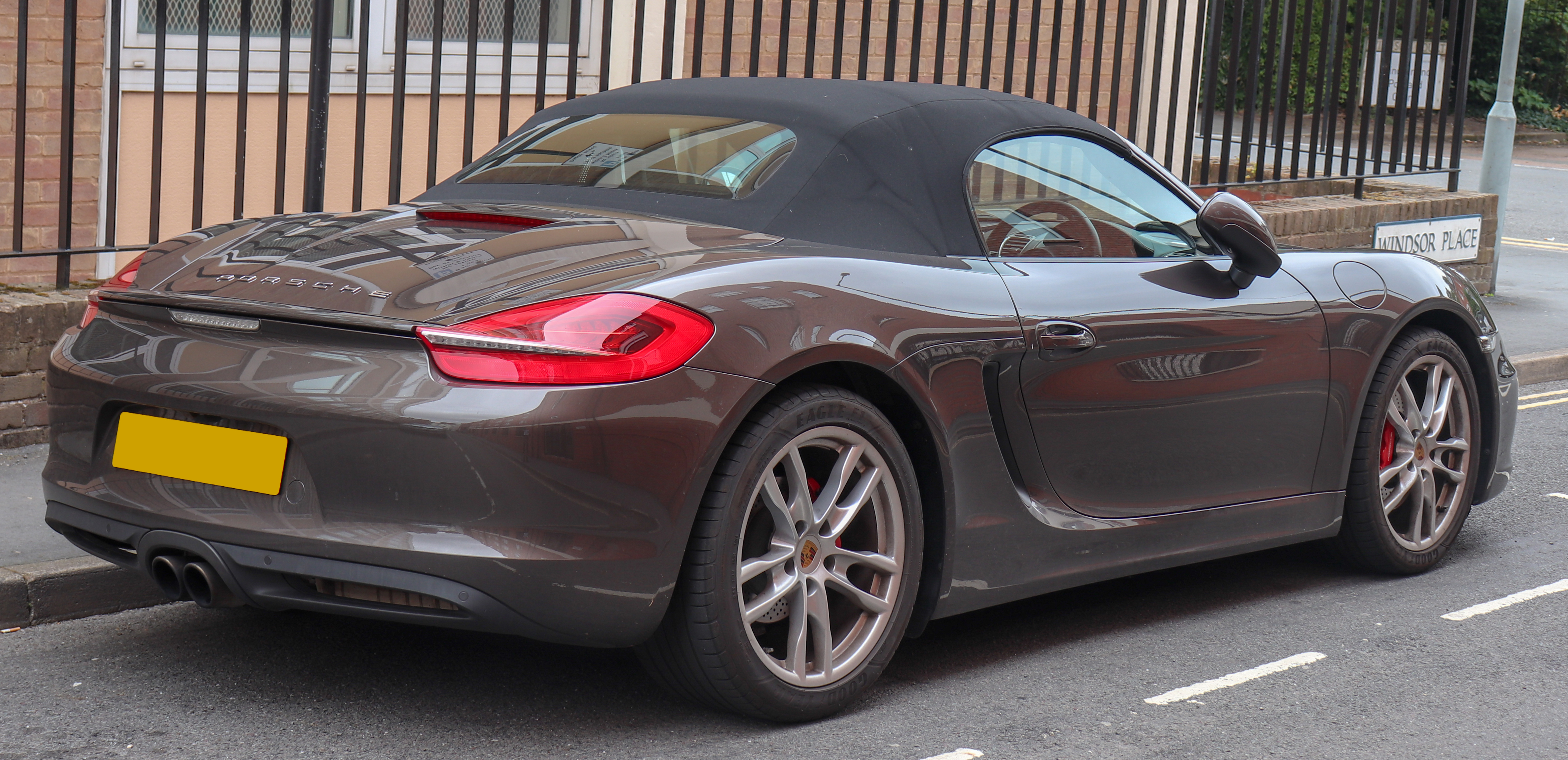 2015 Porsche Boxster S 24V 3.4 Rear Taken in Leamington Spa